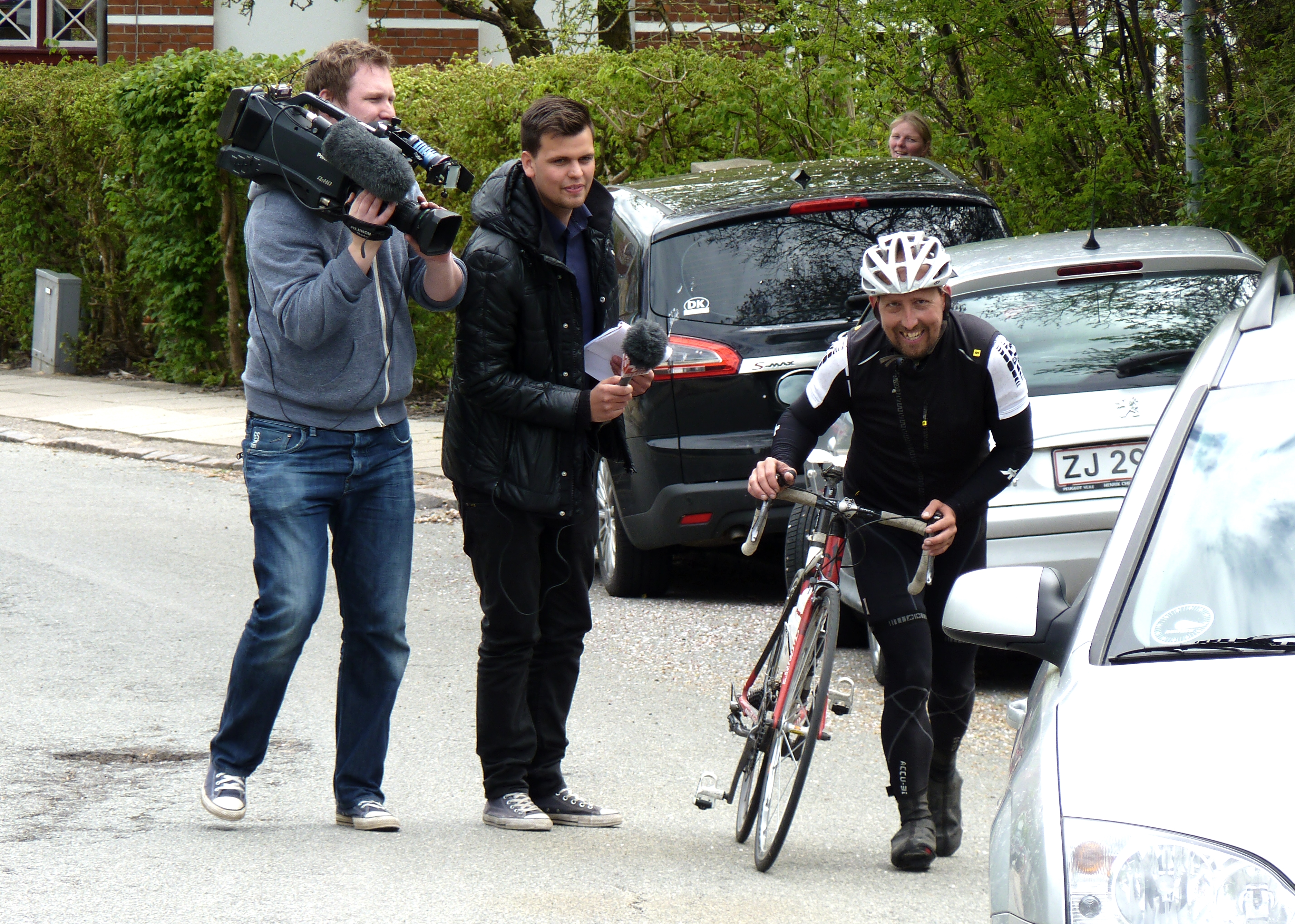 Tv-hold fra TV Syd interviewer en rytter, der er gået i stå på den meget stejle afsluttende bakke på Gl. Kongevej.